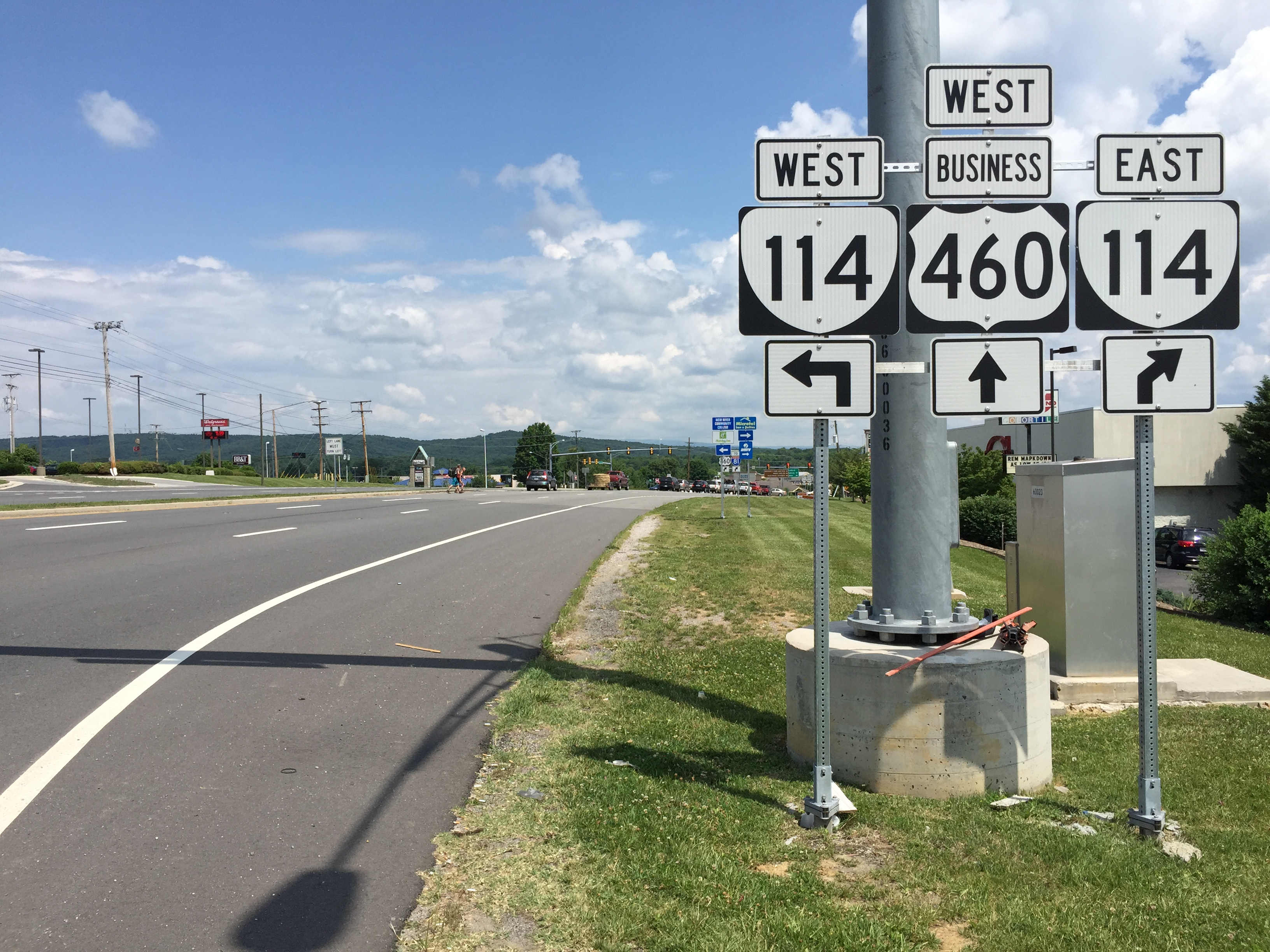 View west along U.S. Route 460 Business (Franklin Street) at Laurel Street in Christiansburg, Montgomery County, Virginia